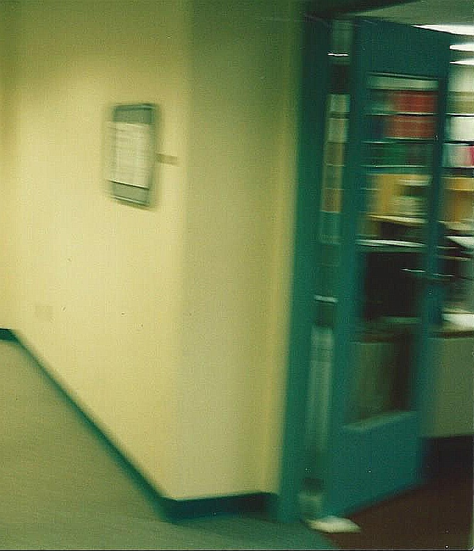 The Unix System Laboratories building in Summit, New Jersey, featured a large library room that was connected with the AT&T/Bell Labs research library system. (Although the photograph was taken after USL was acquired by Novell, it shows the characteristics of the AT&T/USL era.)